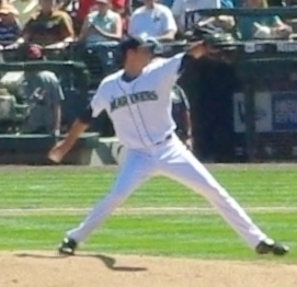 Doug Fister of the Seattle Mariners starts against the New York Yankees.